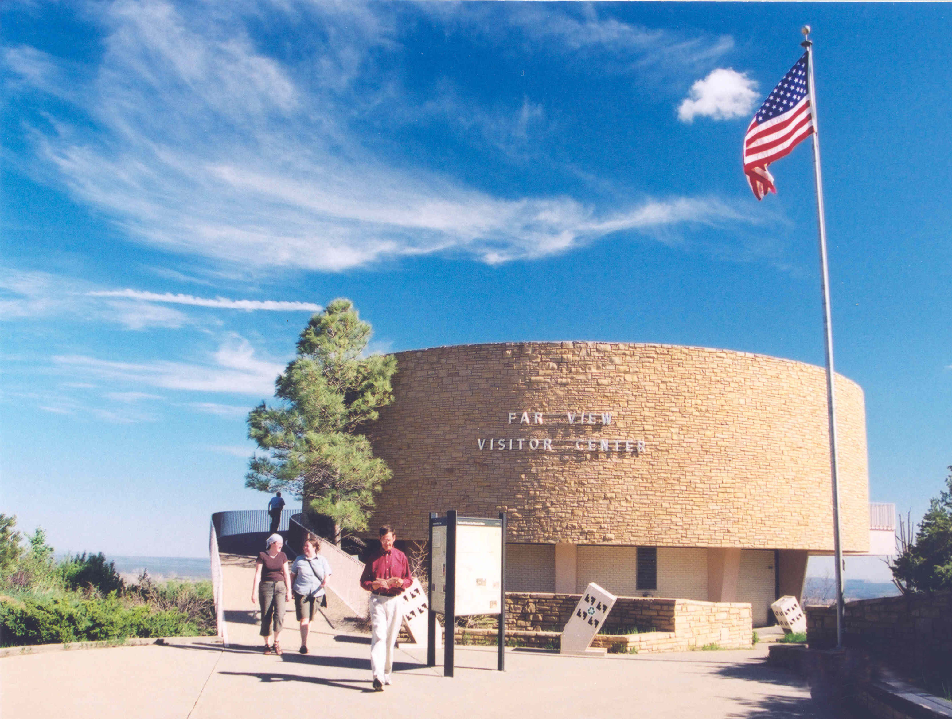 Scope and content: The original finding aid described this photograph as: Original Caption: Travelers explore the Far View Visitor Center at Mesa Verde National Park on the San Juan Skyway. Location: Mesa Verde National Park, Colorado (37.184° N 108.488° W) Status: Public domain. Photo by A. E. Crane